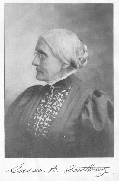 Susan B. Anthony